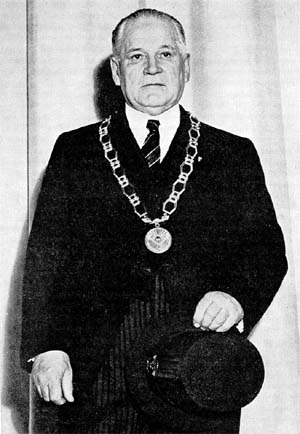 Photograph of the Finnish politician Oskari Wilho Louhivuori (1884–1953).